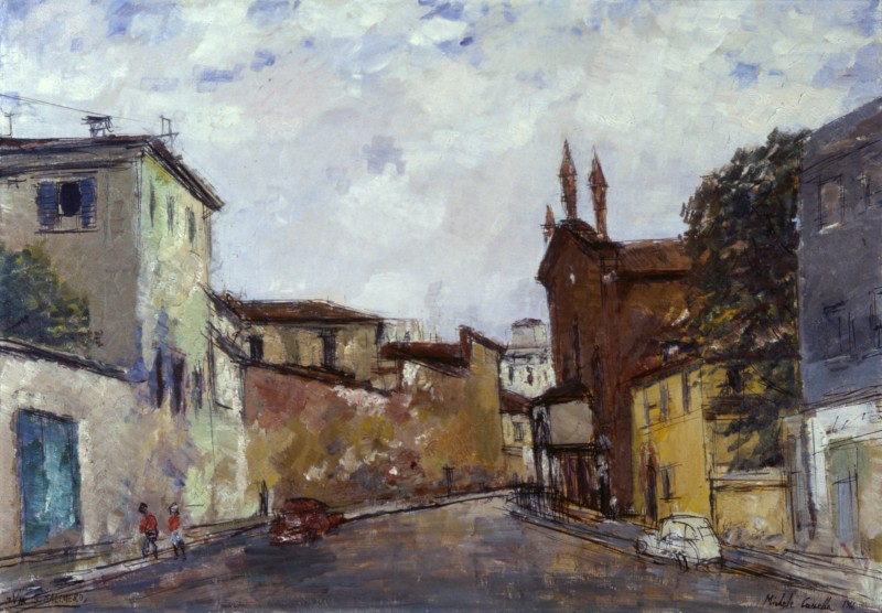 The work was purchased on the antique market in 1986 together with Portofino. The large-scale retrospective exhibition held at the Galerie André Weil, Paris, in October 1966 to trace the creative trajectory of Michele Cascella from his debut in 1907 until his recent works arrived at the Galleria Levi, Milan, in the February of the following year. In addition to the 65 paintings presented in Paris, the show in Milan included a number of new works including two views of Milan produced in the summer of 1966, namely Milan, Piazza Fontana (present location unknown) and Milan, Mid-August (private collection). The latter was also included in the major anthological exhibition held at the Palazzo Reale, Milan, in 1981 (as was Via Festa del Perdono). It is this work in particular that provides a point of reference for the painting examined here, which shows Via San Calimero with the façade of the basilica of the same name on the right. They share the same measurements, the rigorously central perspective with the buildings extending like wings on either side of the large and half-empty space in the middle, and the bright colour of the terracotta façades, remnants of ancient Milan freely combined with modern elements. In these works Cascella captures the image of the city in mid-August with vivacity and immediacy by means of a technique that alternates patches of thick paint applied with a palette knife and more fluid painting with areas of canvas left exposed in constant experimentation with means of expression. Comparison of these paintings with the Milanese views of the 1920s – including Along the Naviglio Canal and Entrance to the Portello, both in the Cariplo Collection – reveals both Cascella’s transition from naturalistic but strongly evocative painting to a livelier and more clear-cut vision and the continuity and coherence of his approach and its focus on study from life in flat opposition to the avant-garde.